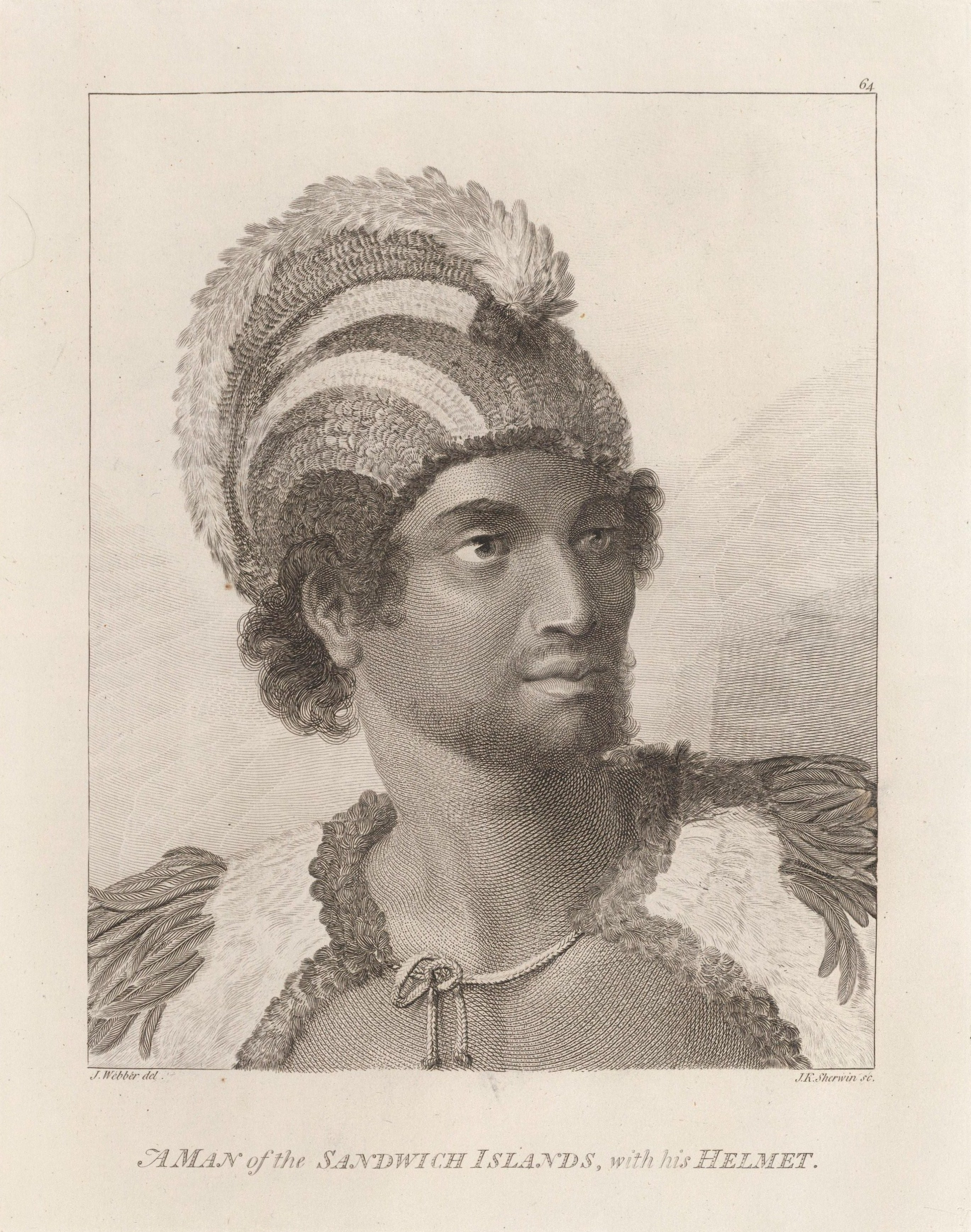 "Portrait of Kaneena, a chief of the Sandwich Islands in the North Pacific" by John Webber. The accurate orthography is Kanaʻina. He was one of the two chiefs along with Palea (Pareea) who were the first to greet Captain Cook at Kealakekua Bay. "..we were obliged to have recourse to the assistance of Kaneena, another of their chiefs, who had likewise attached himself to Captain Cook."[1] Described as; as fine "a figure as can be seen. He was about six feet high, had regular and expressive features, with lively dark eyes; his deportment was easy, firm, and graceful." According to David Samwell, ship's surgeon of H.M.S. Discovery, Kanaʻina struck the first blow to James Cook's before he was stabbed to death.[2] Dibble identifies him in 1839 as Kalaimanokahoowaha.[3] According to another source he may have died in the fighting.